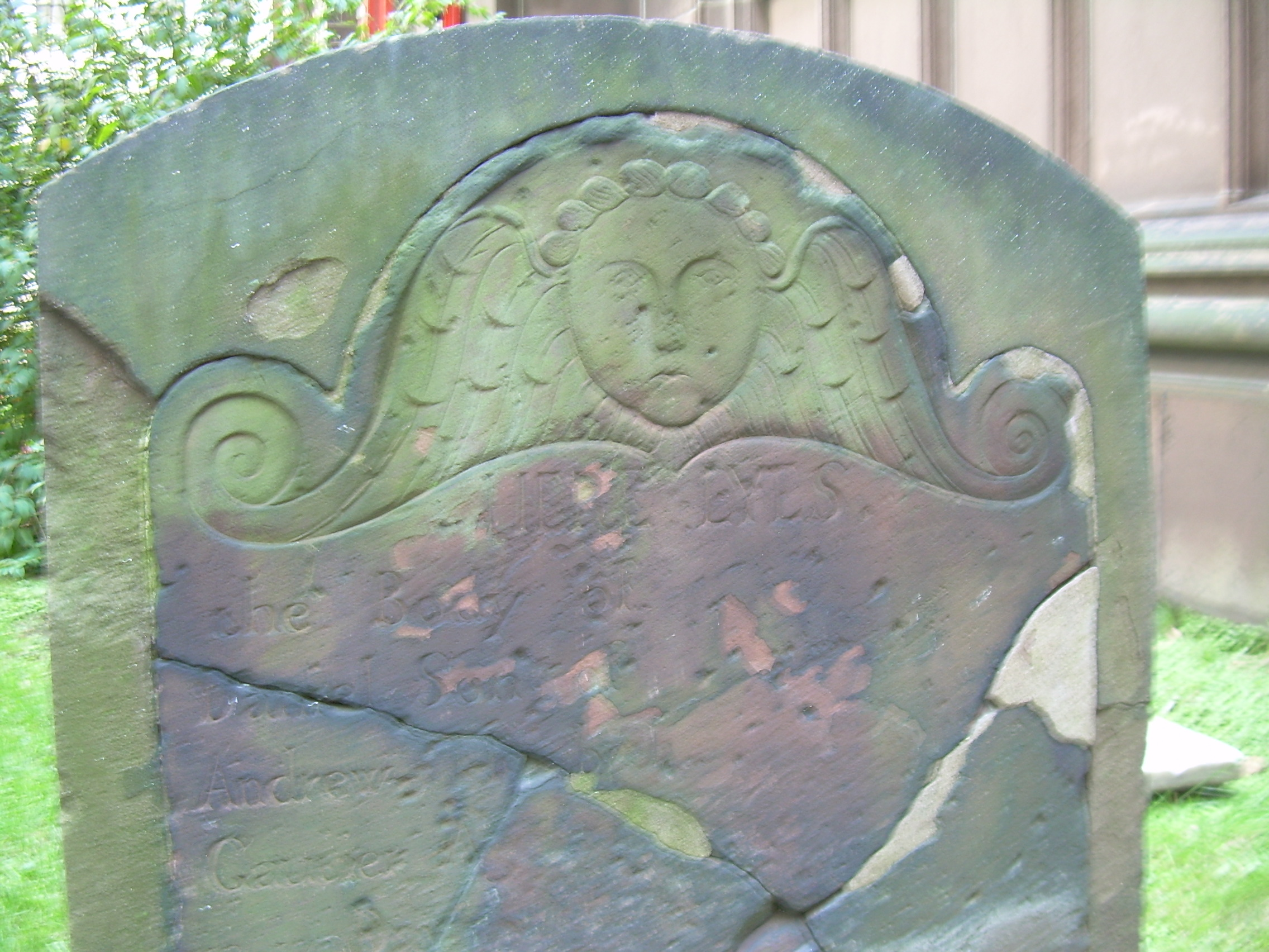 This photo is of Wikis Take Manhattan goal code G20, Hugh Williamson.